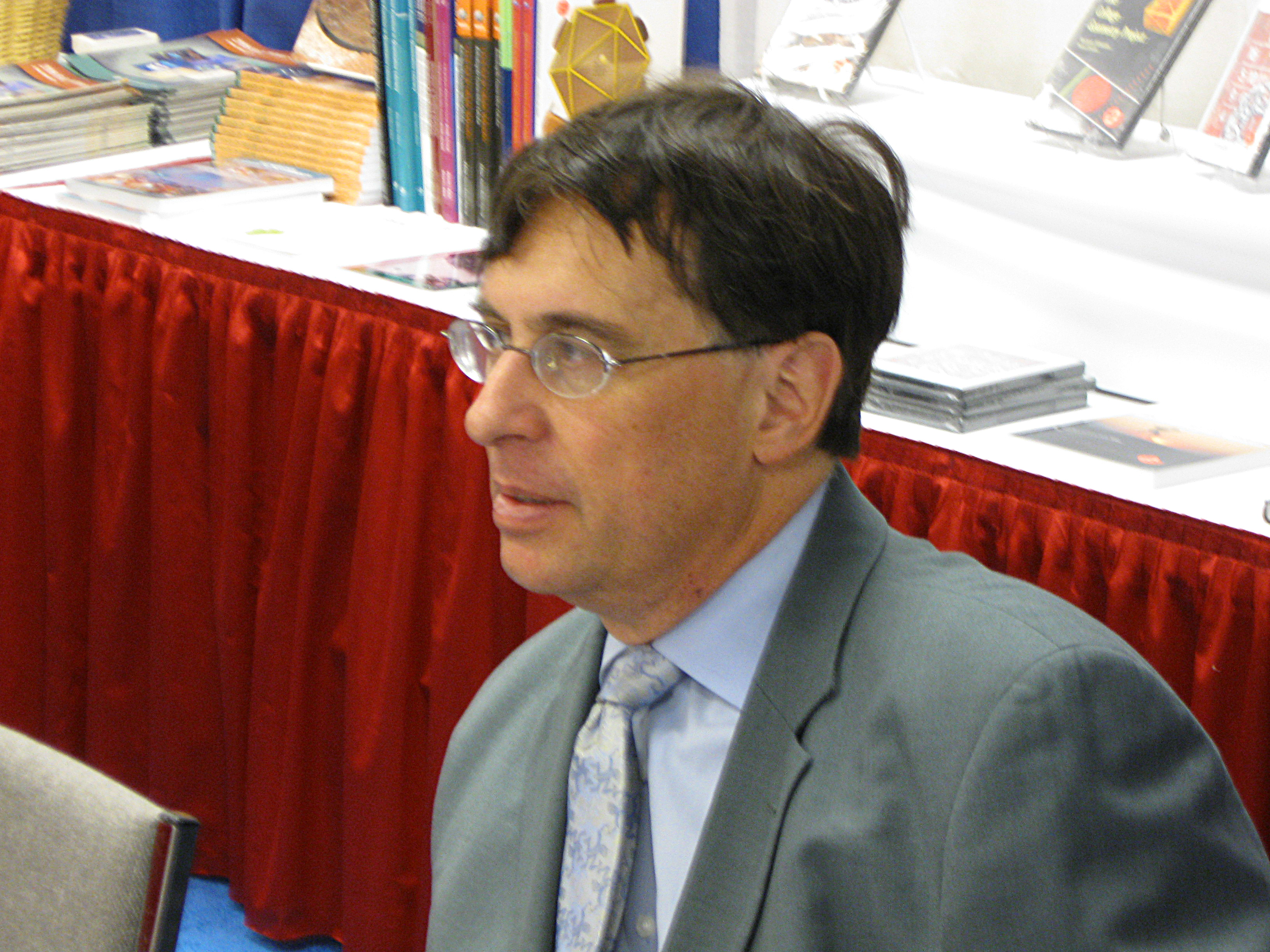 Steven G. Krantz, professor of mathematics at Washington University in Saint Louis. Photographed at the Joint Mathematics Meetings in Washington, DC, January 2009.